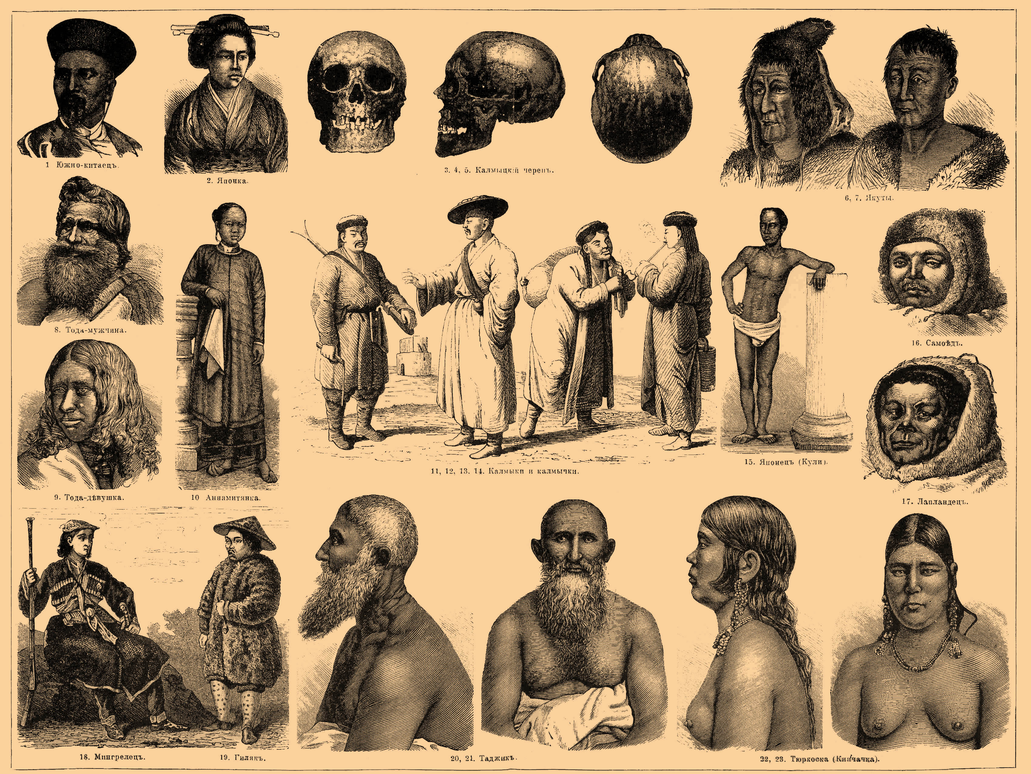 Illustration from Brockhaus and Efron Encyclopedic Dictionary (1890—1907)